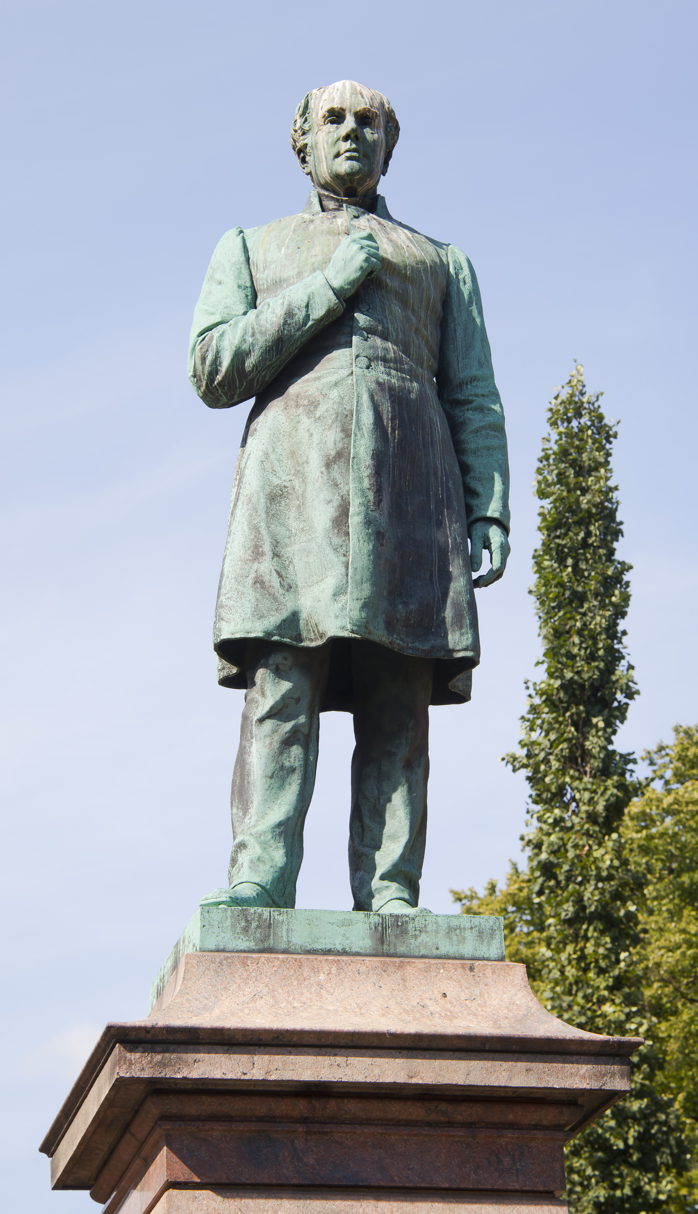 Statue of Johan Ludvig Runeberg, Helsinki, Finnland